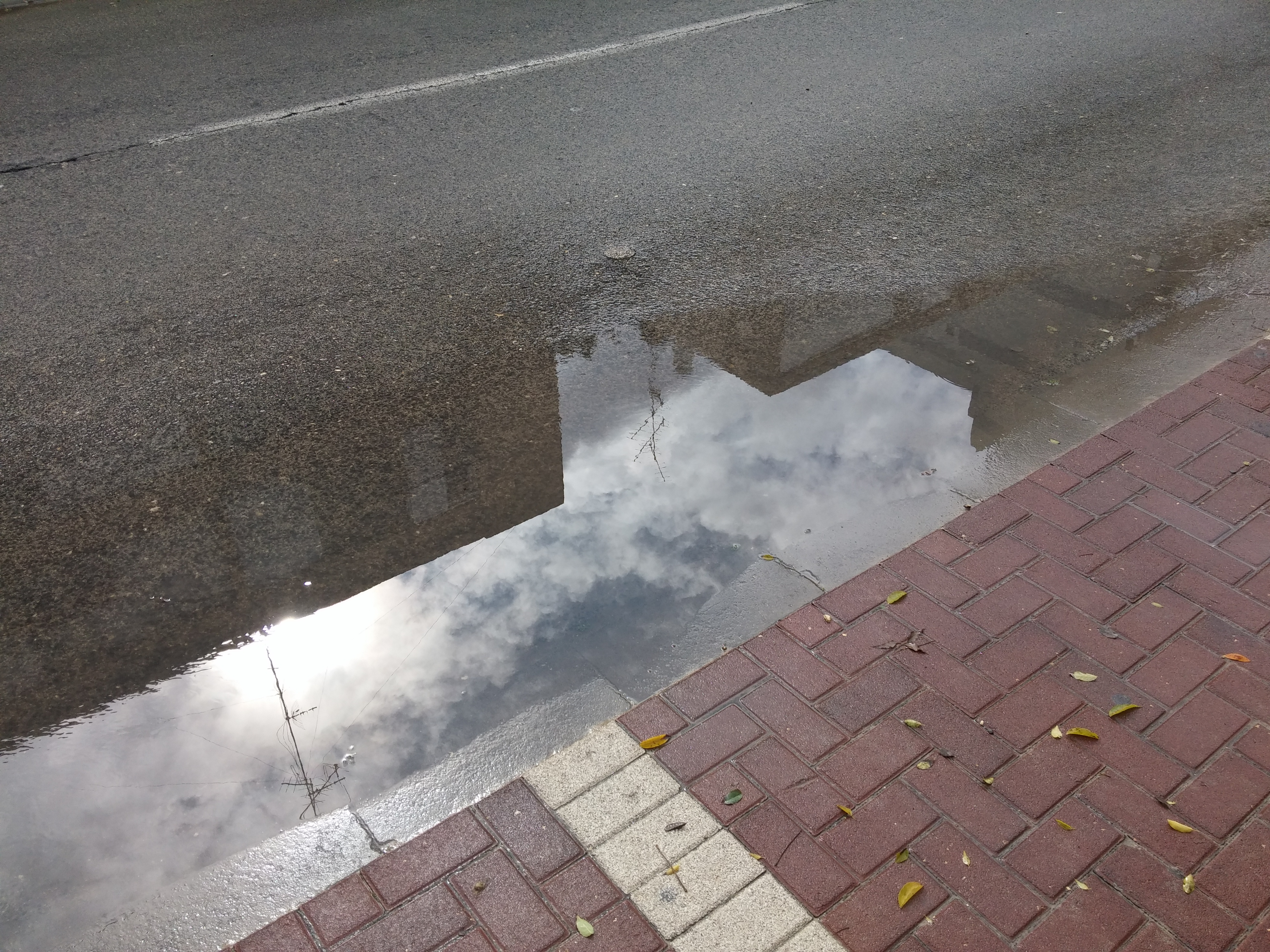 Reflection of the sky on a winter Road puddle in Ramat Gan, Israel